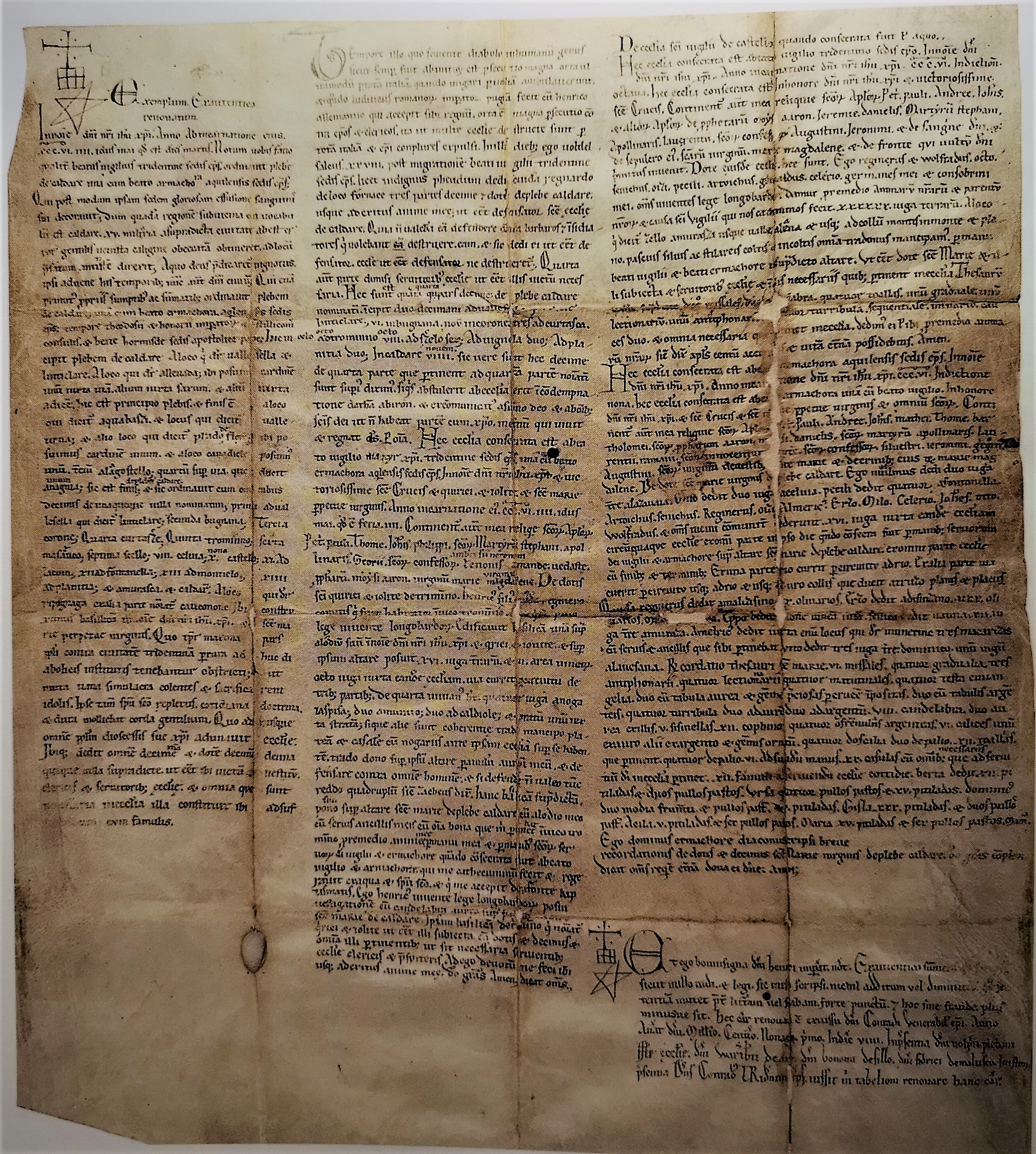 The Vigiliusbrief deed from 1191, Pfarrarchiv Kaltern, South Tyrol